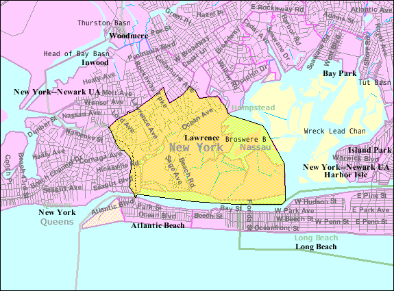 U.S. Census 2000 reference map for Lawrence, New York